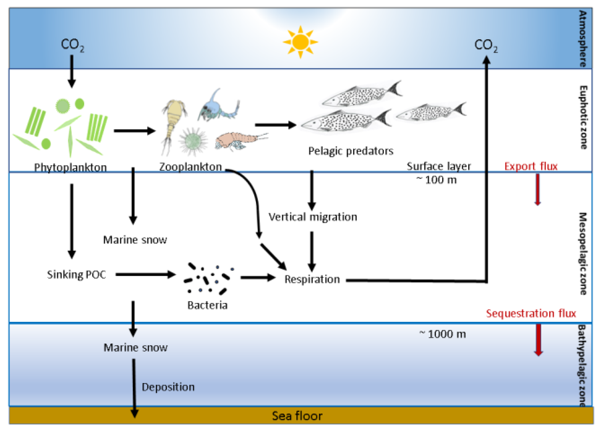 Schematic of the biological carbon pump Phytoplankton fix CO2 in the euphotic zone using solar energy and produce particulate organic carbon (POC). POC formed in the euphotic zone is processed by microbes, zooplankton and their consumers into organic aggregates (marine snow), which is thereafter exported to the mesopelagic (200–1000 m depth) and bathypelagic zones by sinking and vertical migration by zooplankton and fish. Export flux is defined as the sedimentation out of the surface layer (at approximately 100 m depth) and sequestration flux is the sedimentation out of the mesopelagic zone (at approximately 1000 m depth). A portion of the POC is respired back to CO2 in the oceanic water column at depth, mostly by heterotrophic microbes and zooplankton, thus maintaining a vertical gradient in concentration of dissolved inorganic carbon (DIC). This deep-ocean DIC returns to the atmosphere on millennial timescales through thermohaline circulation. Between 1% and 40% of the primary production is exported out of the euphotic zone, which attenuates exponentially towards the base of the mesopelagic zone and only about 1% of the surface production reaches the sea floor. Adapted from: Passow, U. and Carlson, C.A. (2012) "The biological pump in a high CO2 world". Marine Ecology Progress Series, 470: 249–271. Turner, J.T. (2015) "Zooplankton fecal pellets, marine snow, phytodetritus and the ocean’s biological pump". Progress in Oceanography, 130: 205–248.